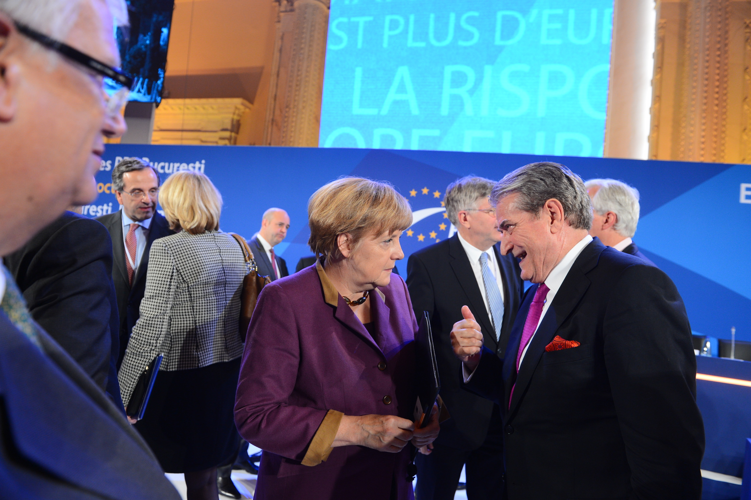 EPP_Congress_4930